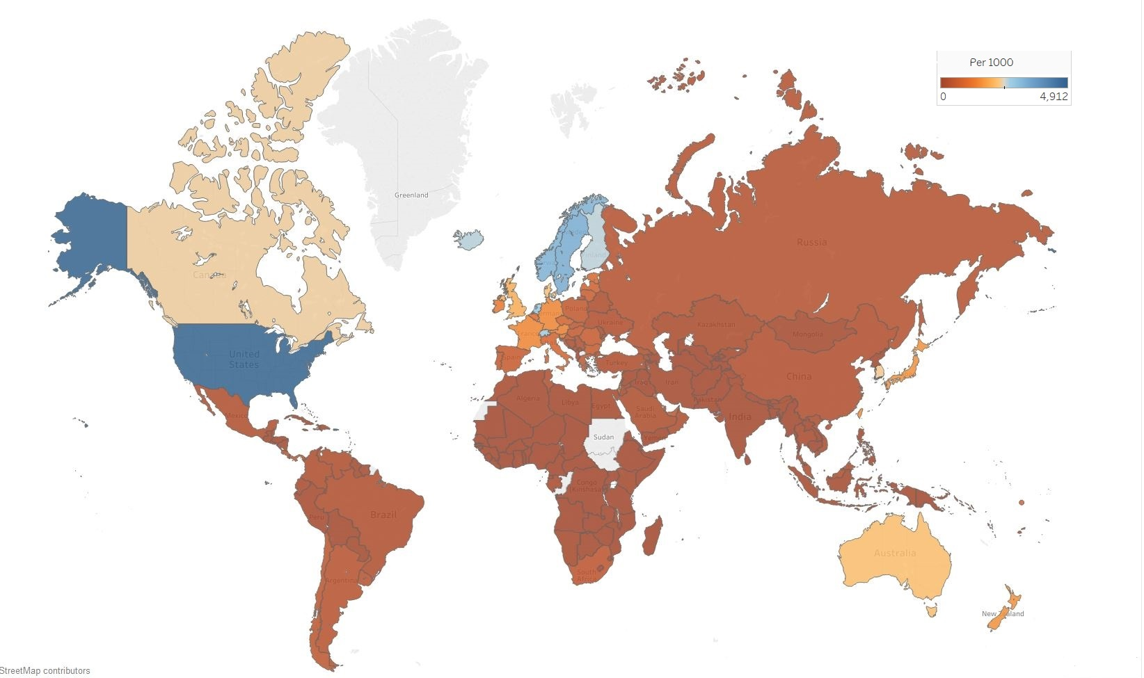 List of countries by IPv4 address allocation per 1000 population.